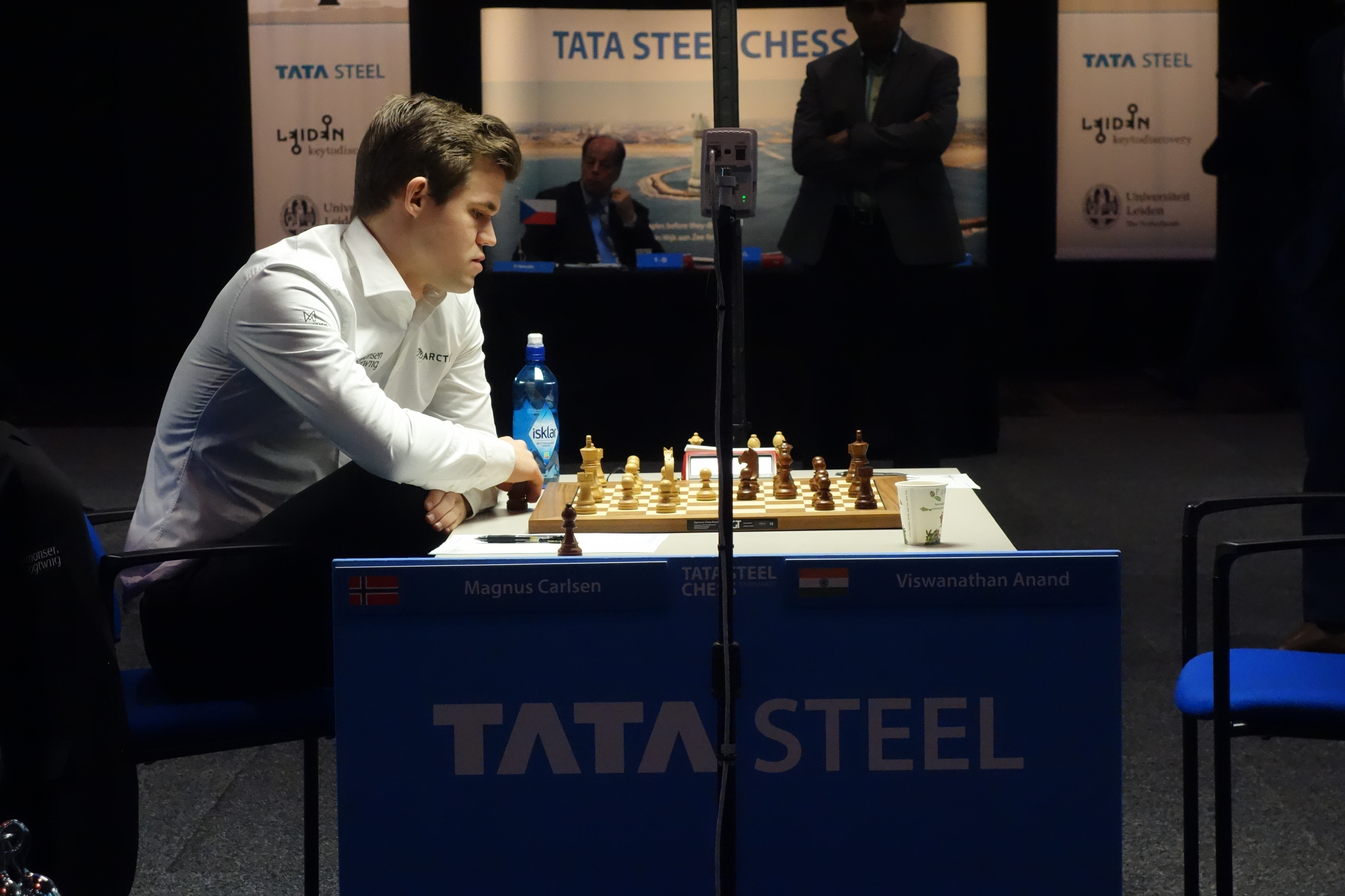 Tata Steel Chess Tournament in Leiden, the Netherlands, 23 January 2019. Magnus Carlsen